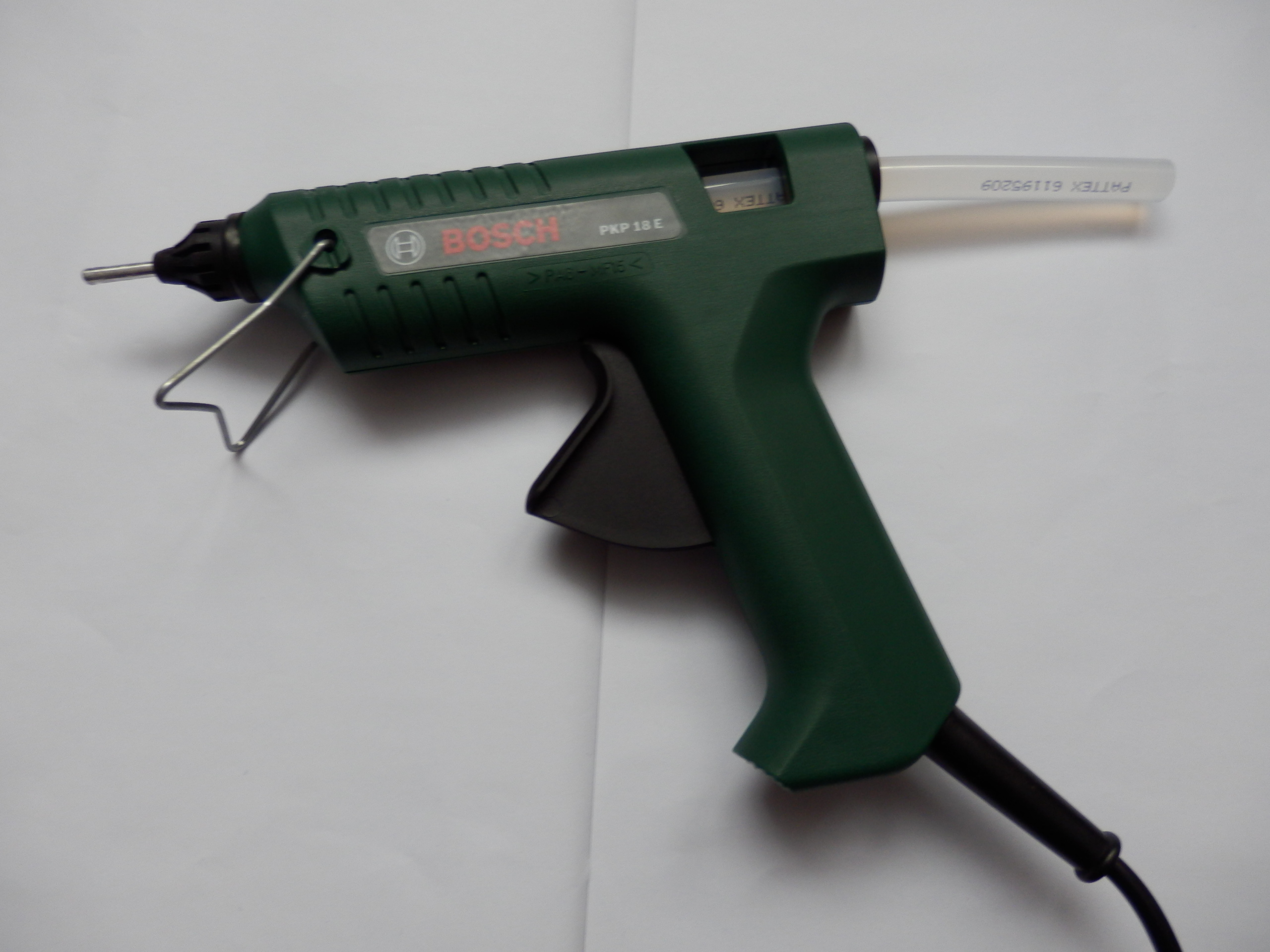 Bosch PKP 18 E Glue Gun Pistol